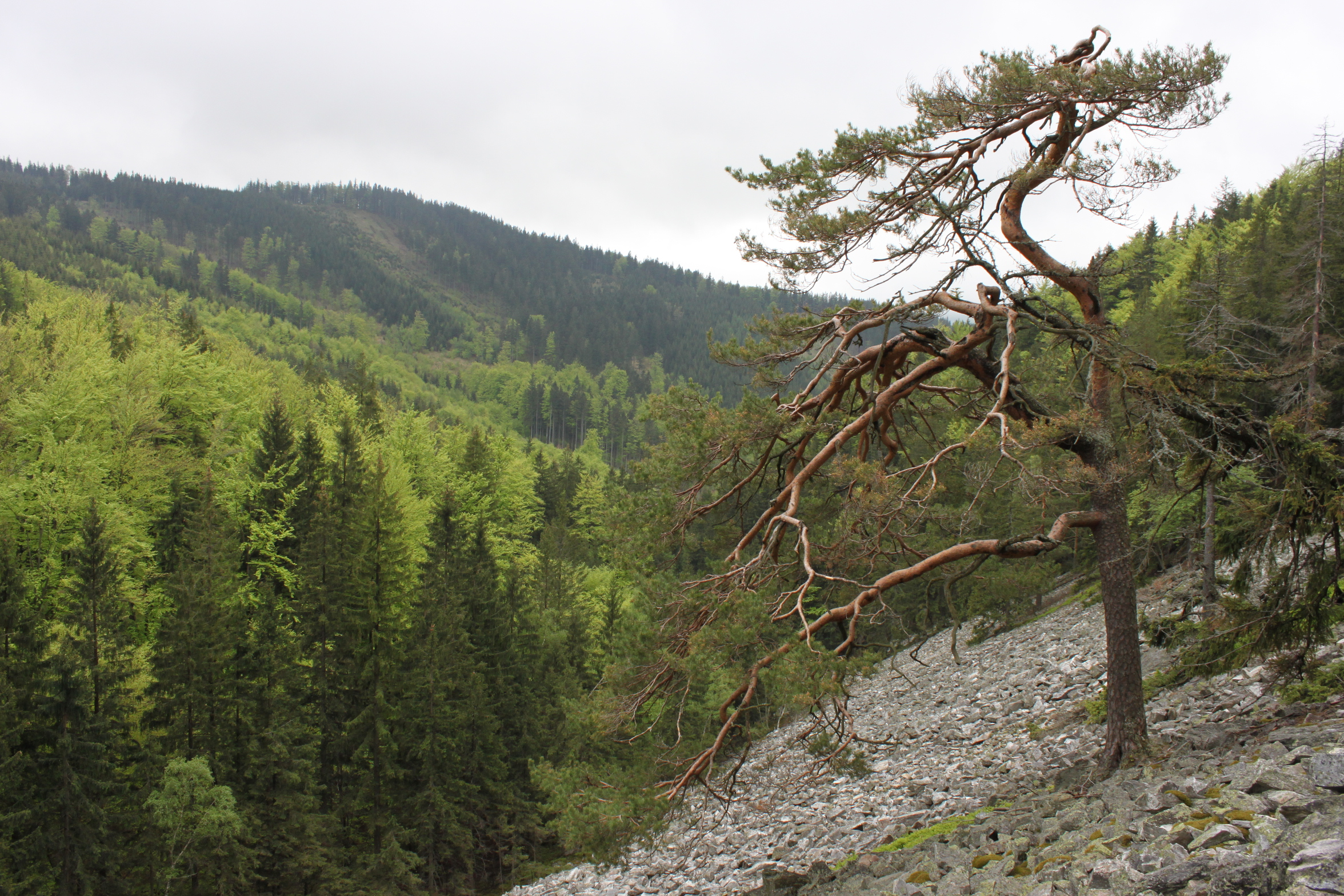 Nature reserve Borek u Domašova in Jeseníky District, Czech Republic